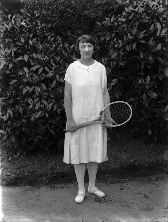 Australian tennis player Esna Boyd by Bassano, whole-plate glass negative, 1925